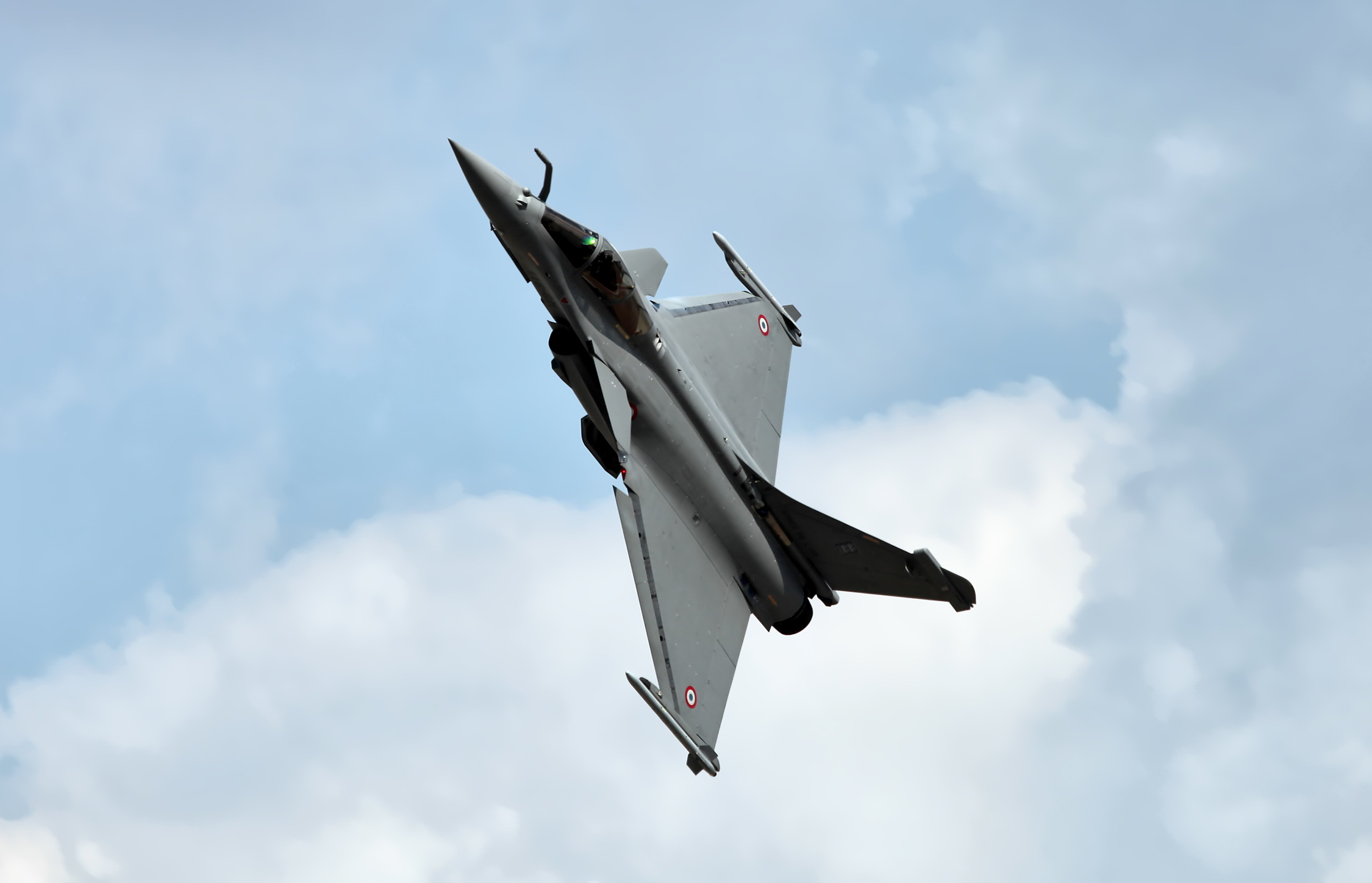 Dassault Rafale